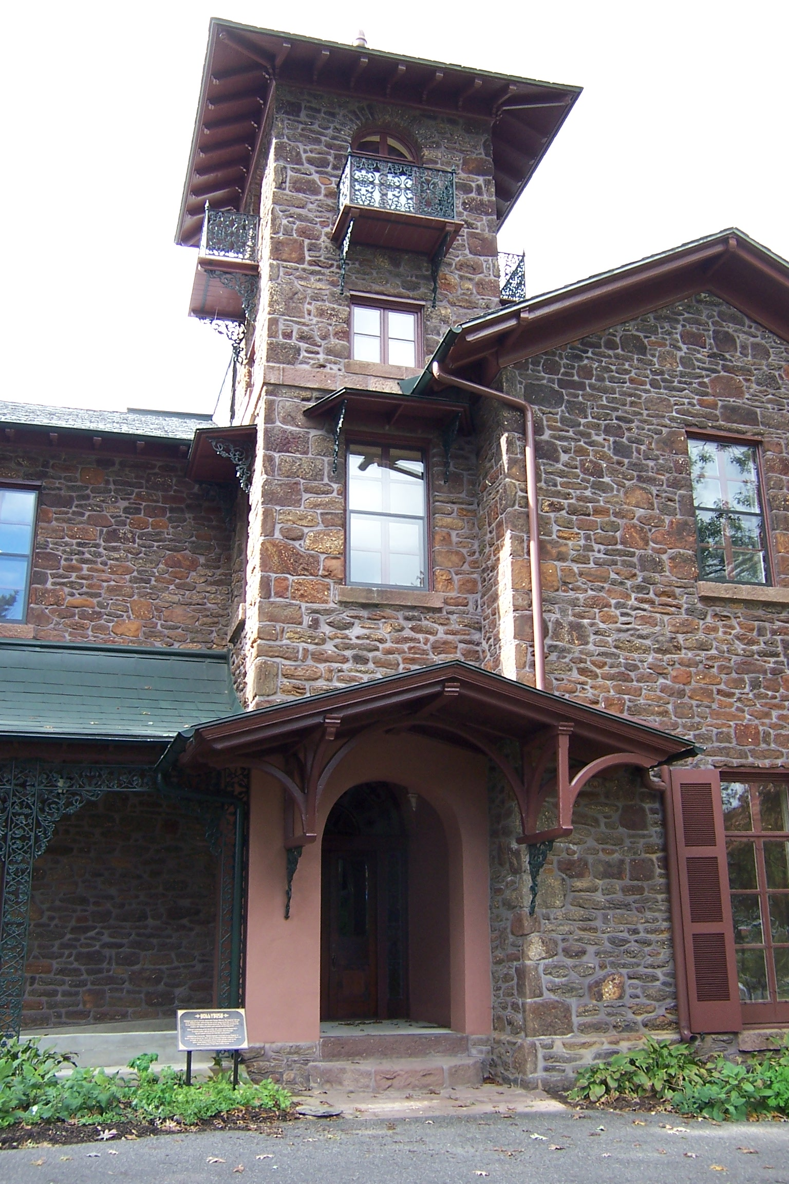 Rowan University, Hollybush Mansion.